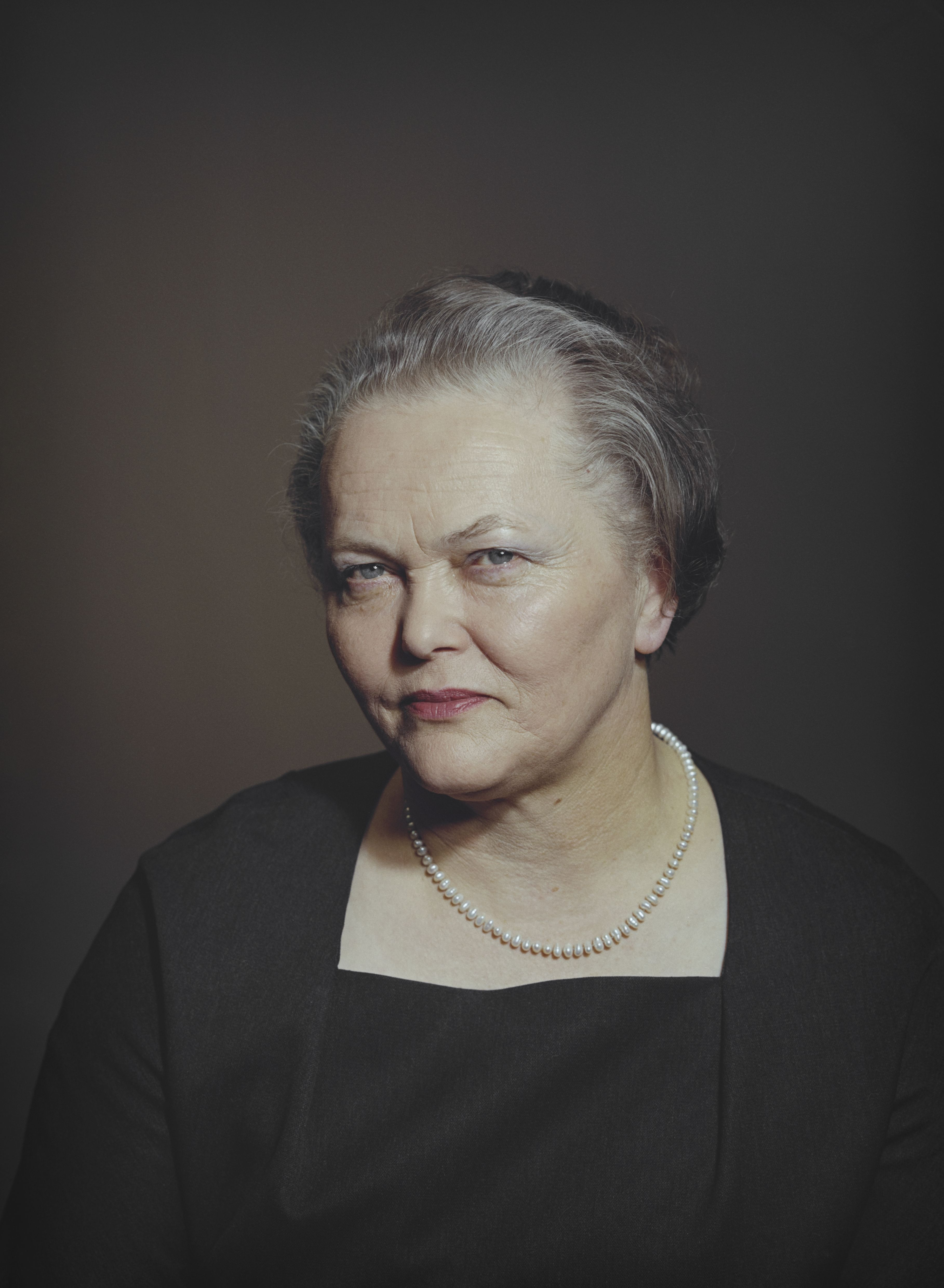 Photograph of the Finnish patron Rakel Wihuri (1905–1987).